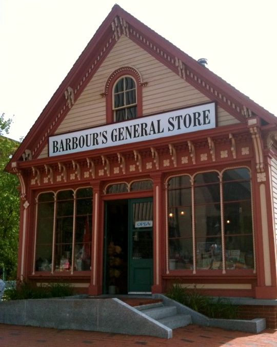 Barbour's General Store, a 19th century general store turned into a historical recreation museum. King Street at Prince William Street, Saint John, New Brunswick, Canada.